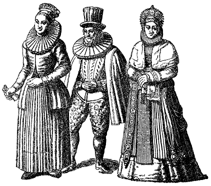 Festive clothes from Bremen during the 16th century.